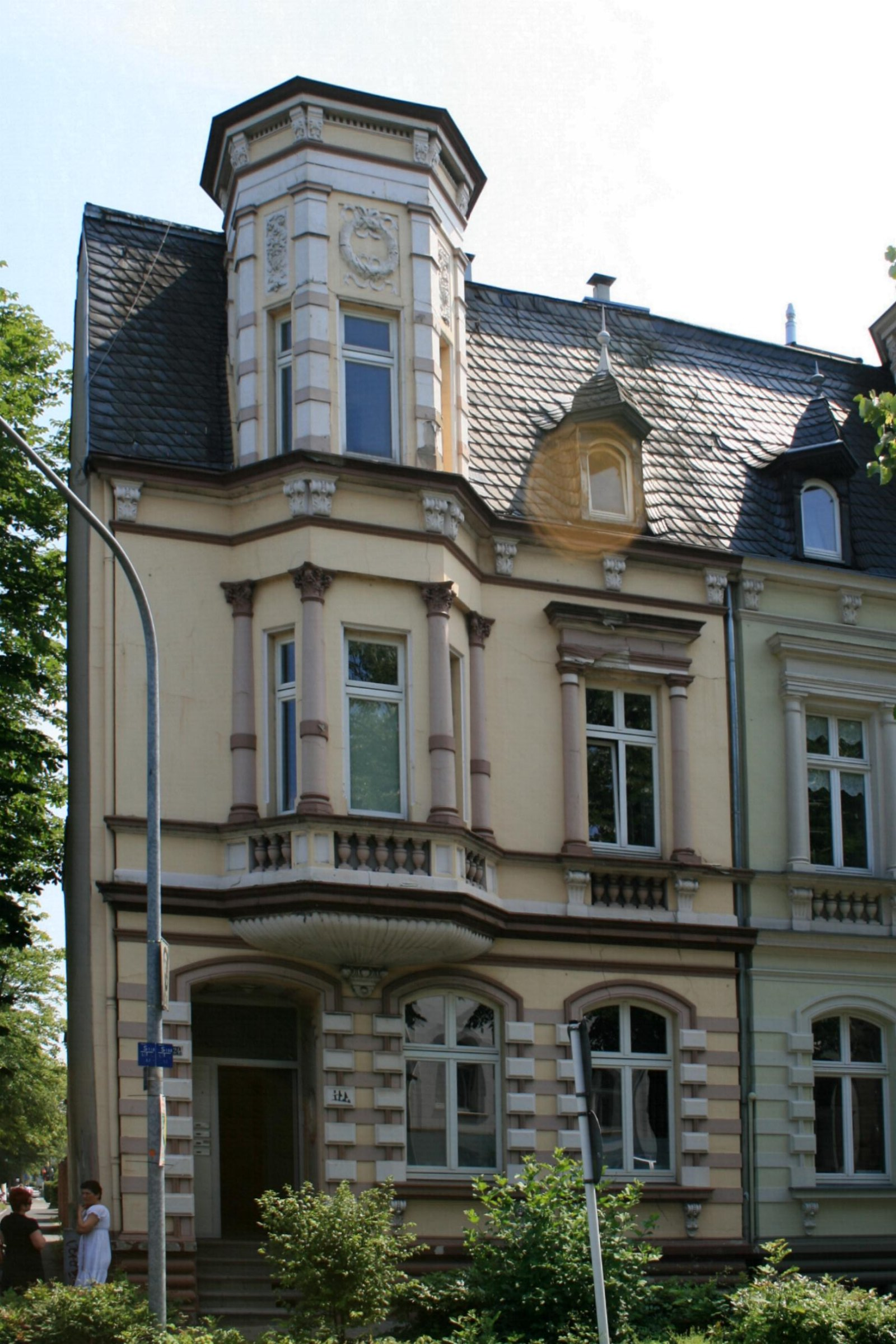 Cultural heritage monument No. B 109 in Mönchengladbach